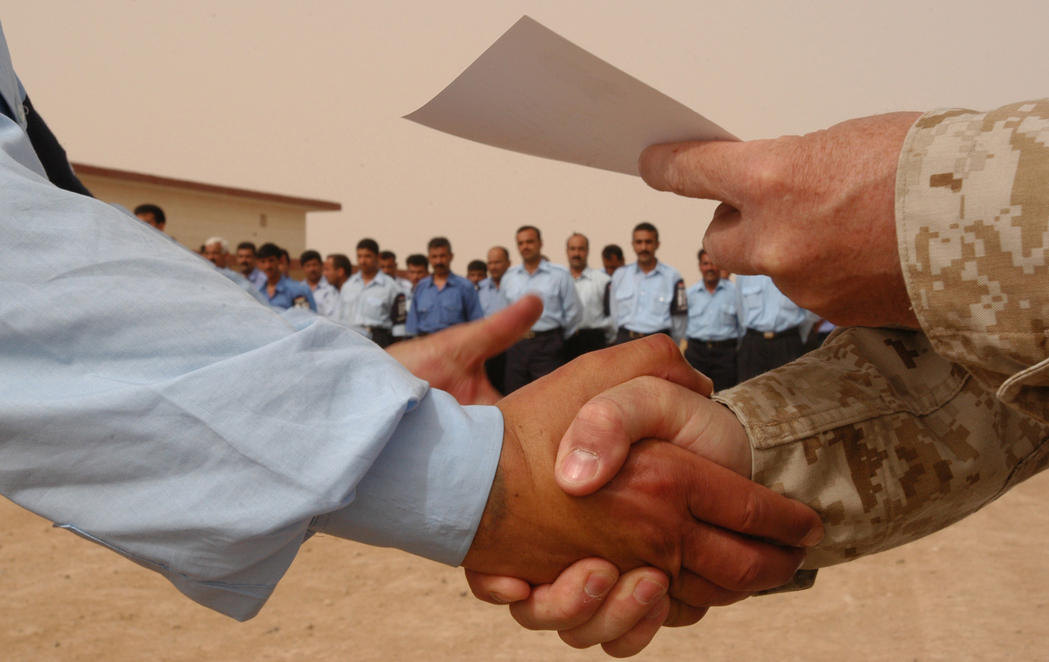 A newly-graduated Iraqi policeman receives a handshake and a certificate from Lt. Col. Daniel J. Racca, commandant of the Ar Ramadi Police Academy. A graduation ceremony was held here for 88 Iraqi policemen April 22. This was the first class instructed by Racca and his team of reserve Marines attached to 3rd Battalion, 11th Marine Regiment.